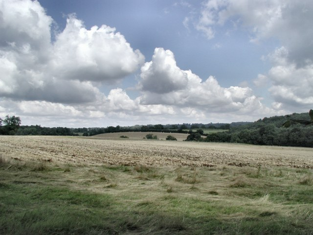 Field NE of Sonning Common. Looking NW from a footpath by Crosscroft Wood which is behind the camera